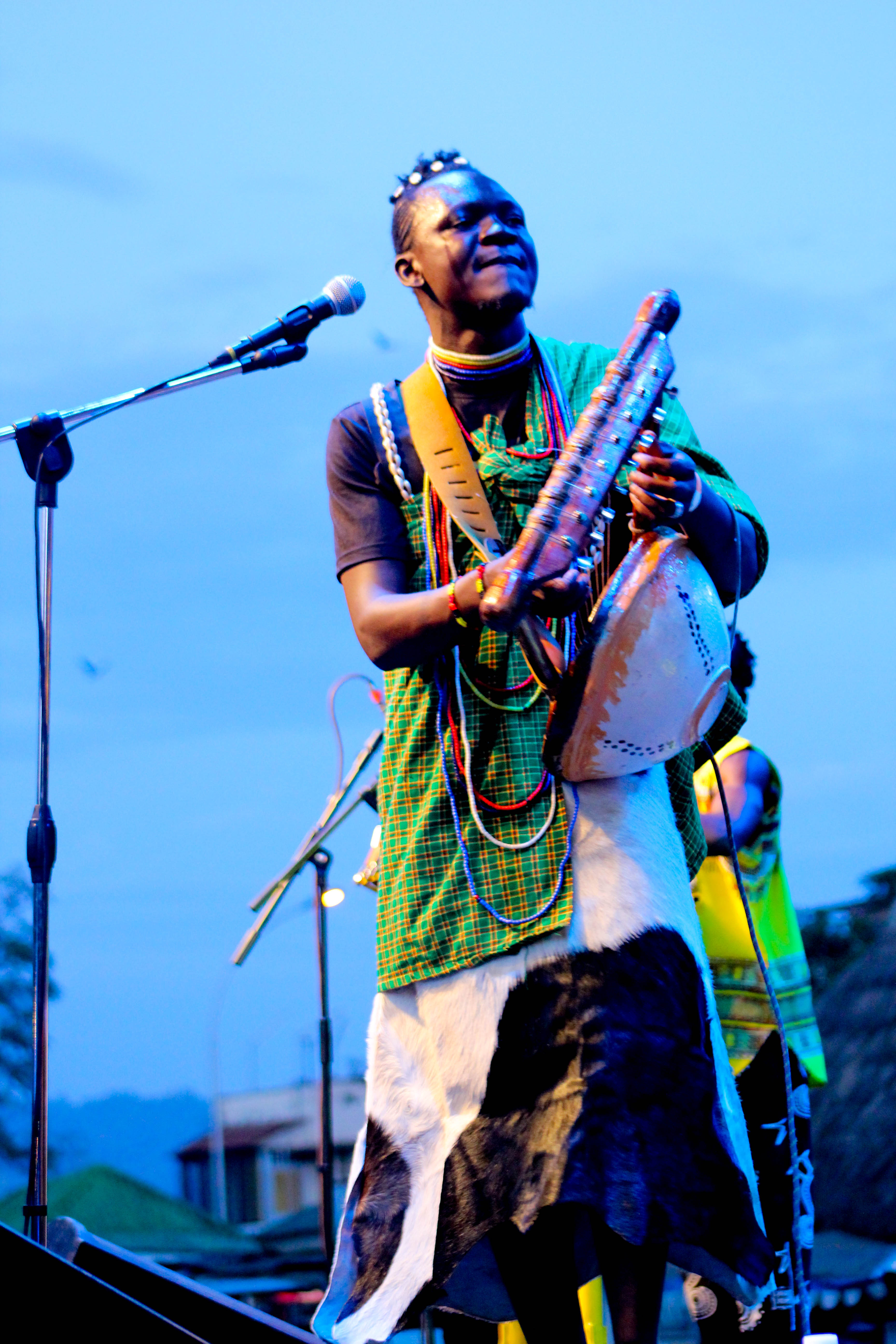 A Ugandan man playing endongo This is an image of music and dance from Uganda